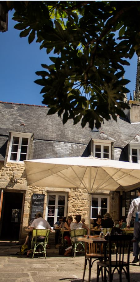 Max Jacob's house in Quimper